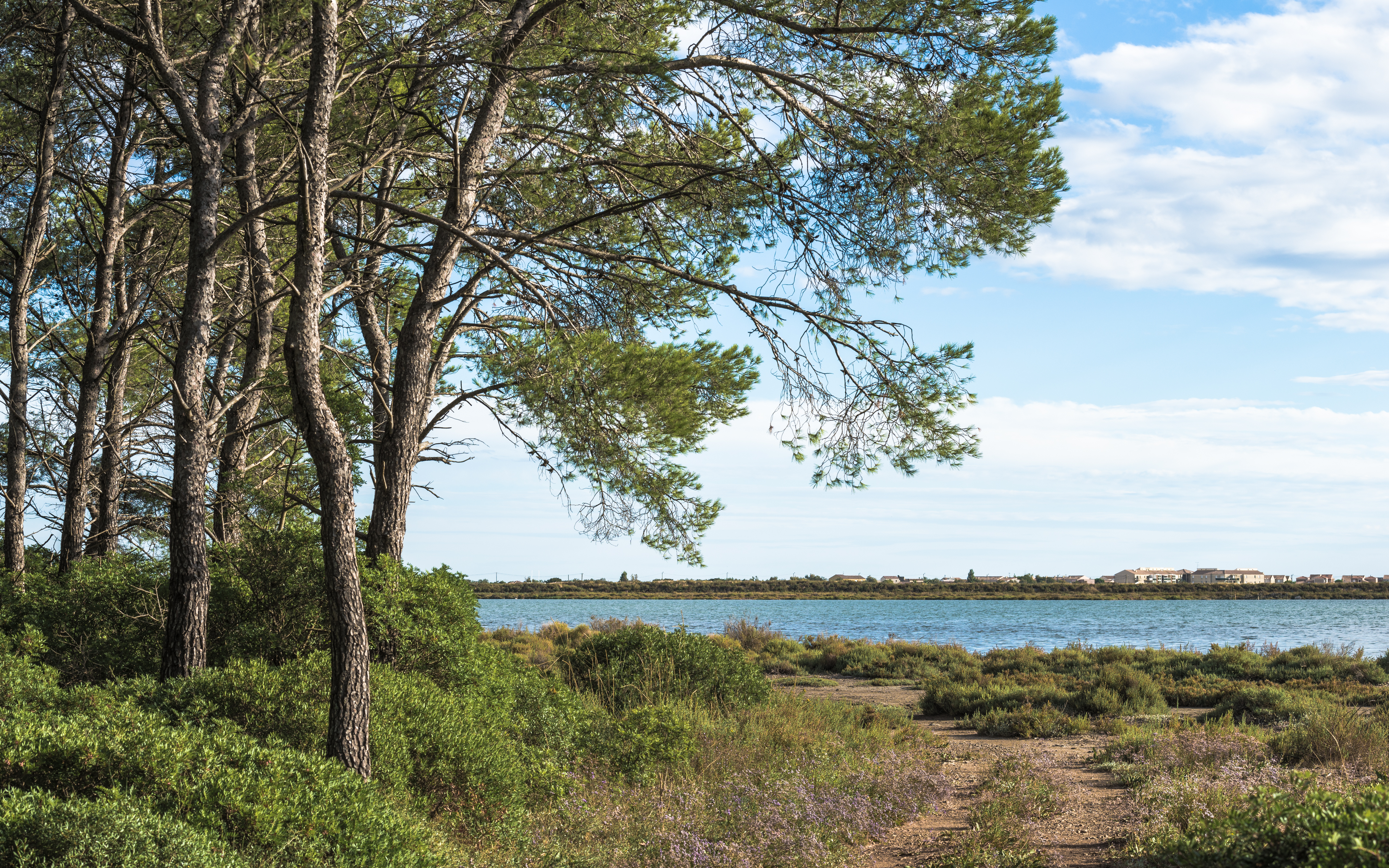 The pines forest of the Bois des Aresquiers (on the left with some Aleppo Pines (Pinus halepensis)), the Étang d'Ingril (with in front of it a carpet of Salicornia europaea), and Frontignan-Plage in the background on the right. Vic-la-Gardiole, Hérault, France.